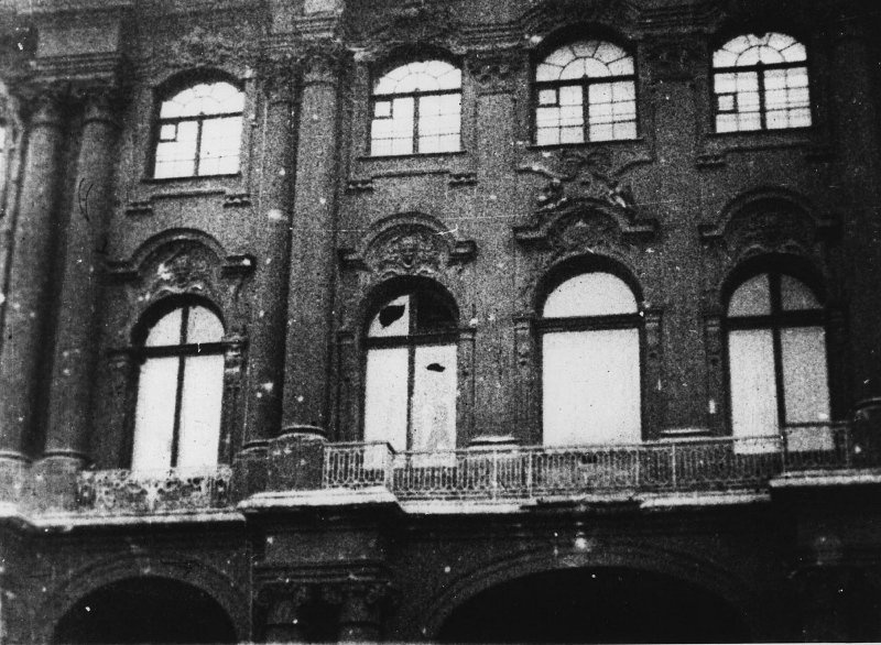 After the capture of the Winter Palace. Petrograd. Morning on 26 October 1917. Photo by P. Novitsky